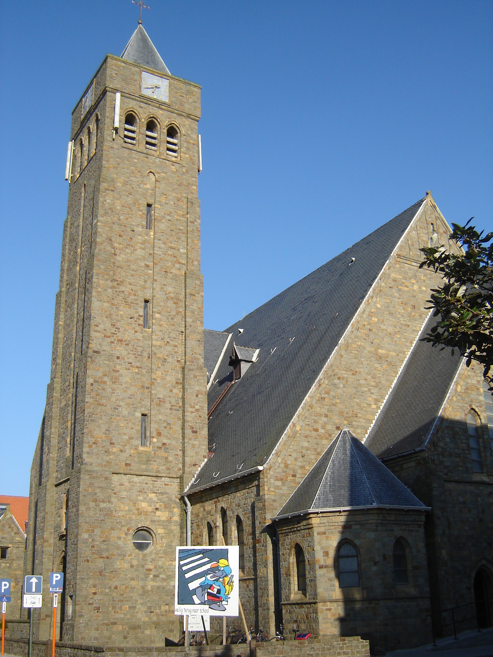 Church of Saint Teresa in Bredene-Duinen (Bredene-Dunes). Bredene, West Flanders, Belgium